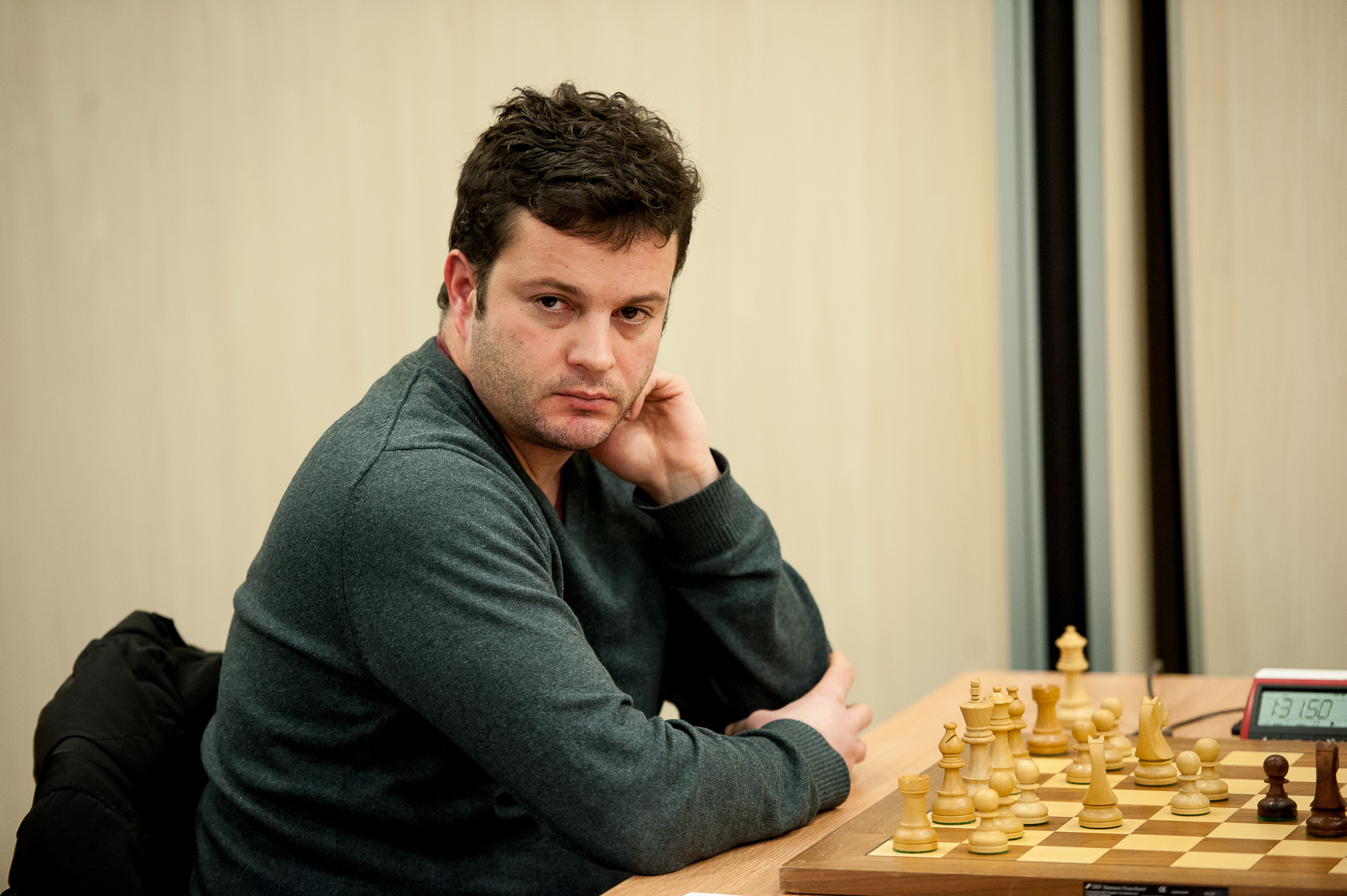 GM Etienne Bacrot, Co-Winner of the Fide Open